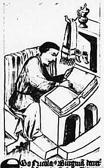 Nikolaus Burgmann (+ 1443), Domdekan in Speyer, Rektor der Universität Heidelberg